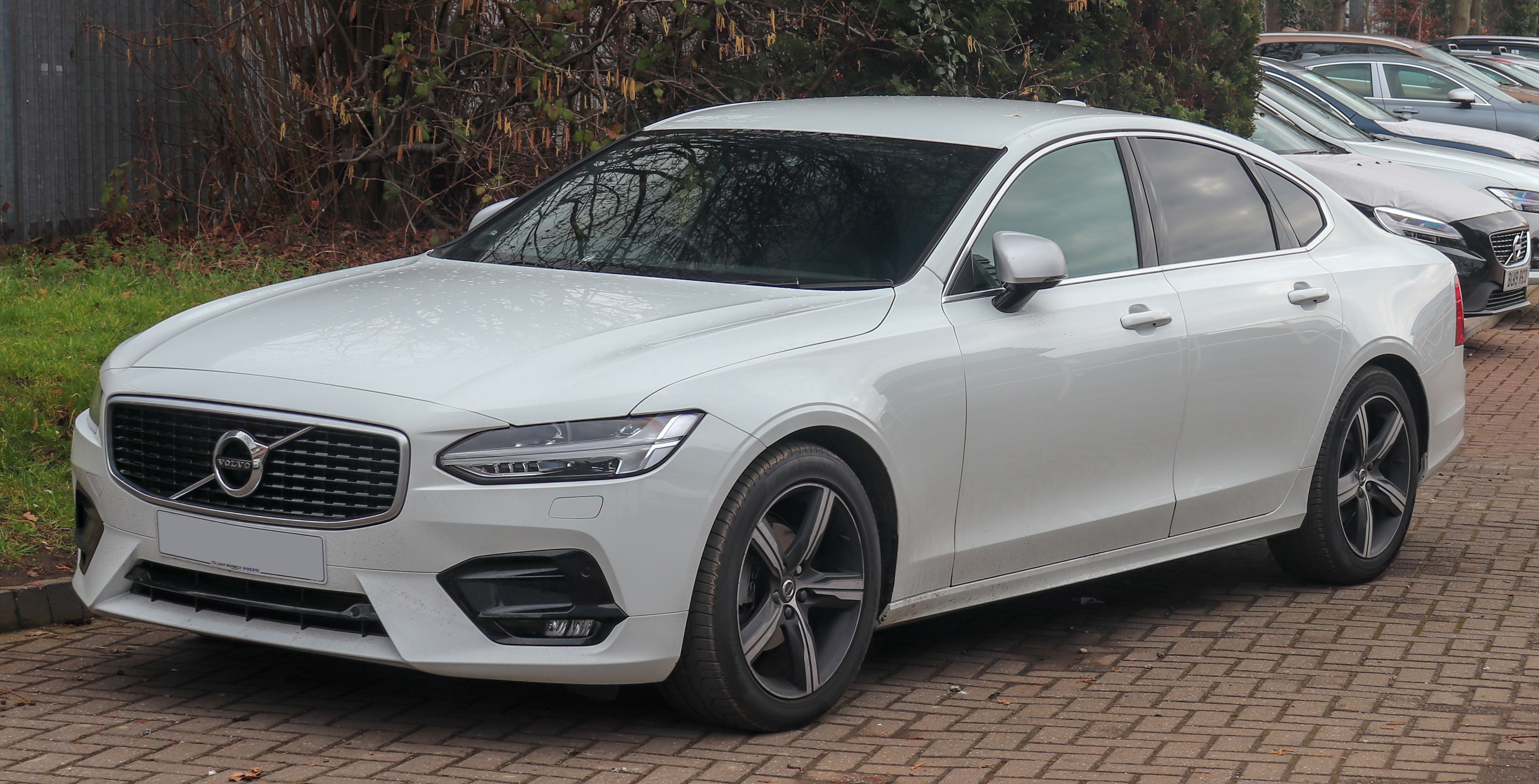 2018 Volvo S90 R-Design D4 Automatic 2.0 Front Taken in Leamington Spa